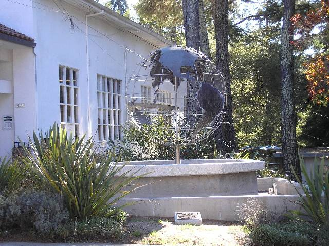 Photo by John Pilge. I am the author.